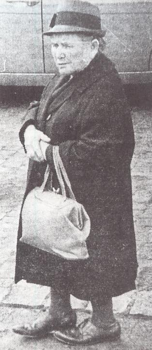 Dürener Originsl own work ca. 1969 papa1234